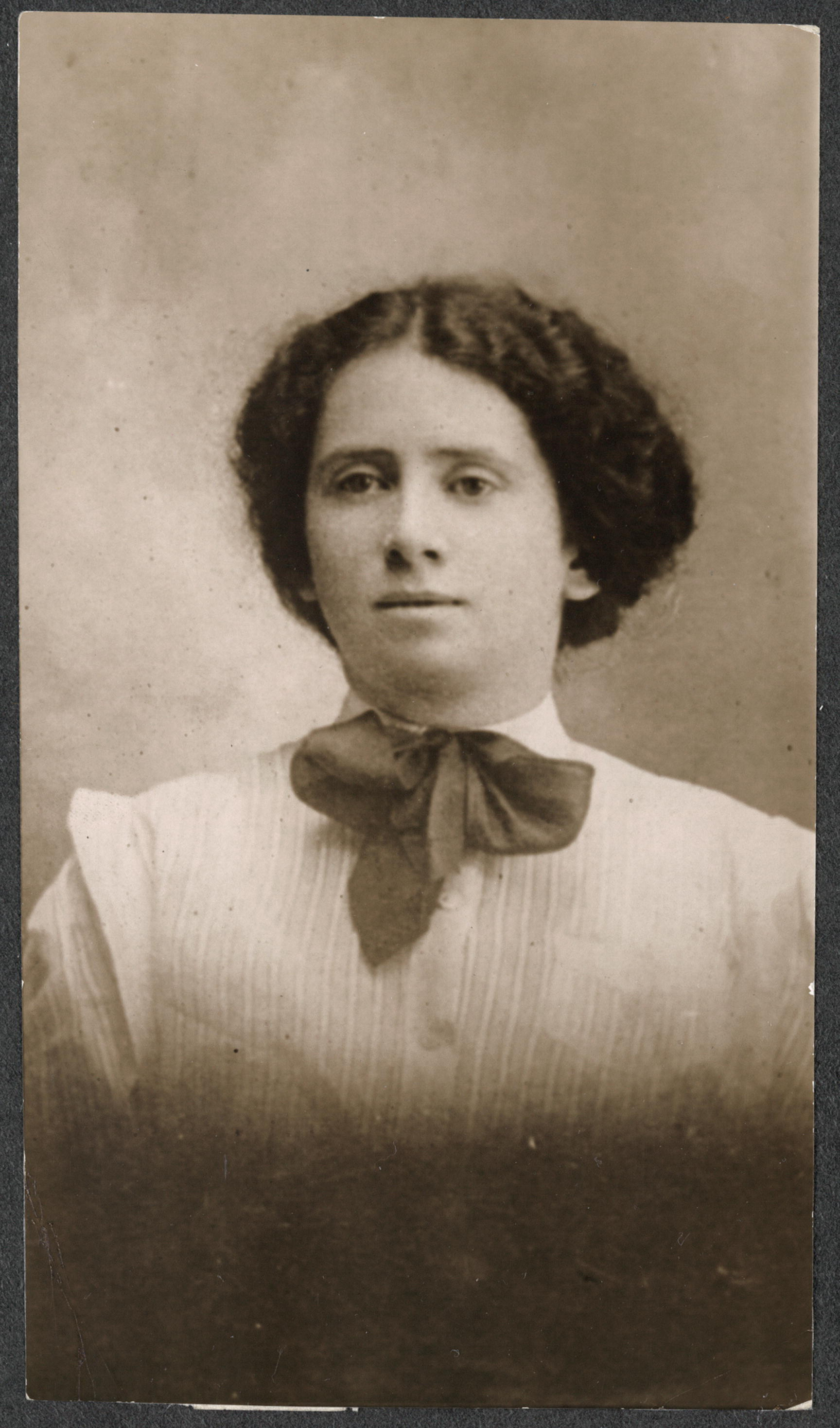 Miss Rose Schneiderman, New York, Vice-President of the Women's Trade Union of N.Y.C.